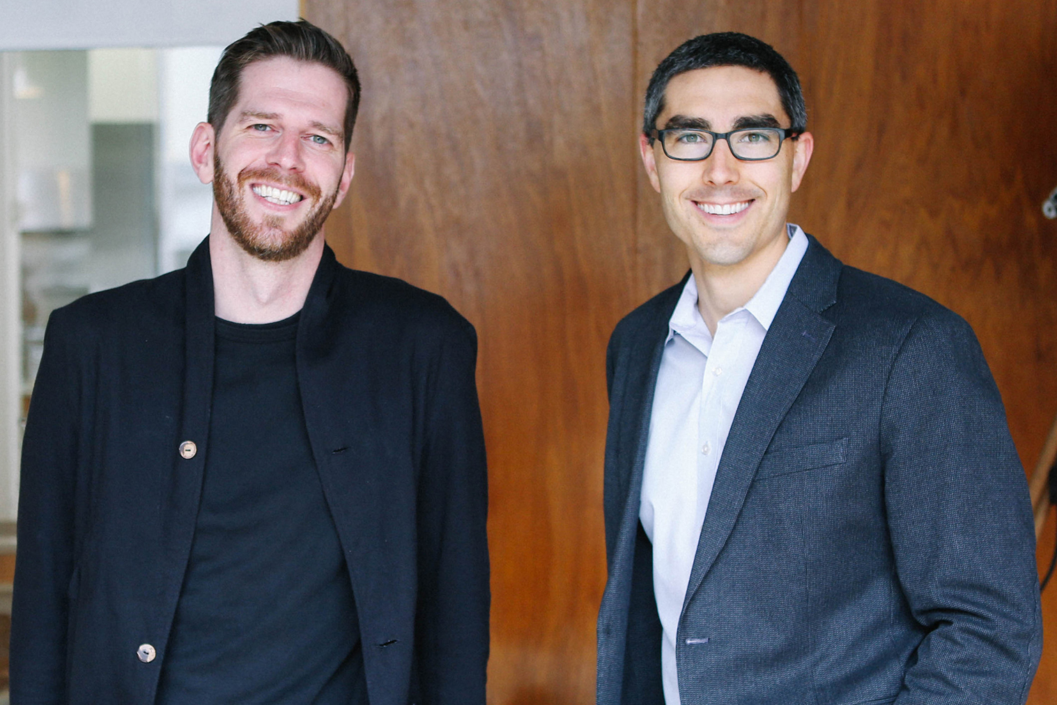 Photo of founders Jasper Platz and Jason Brown